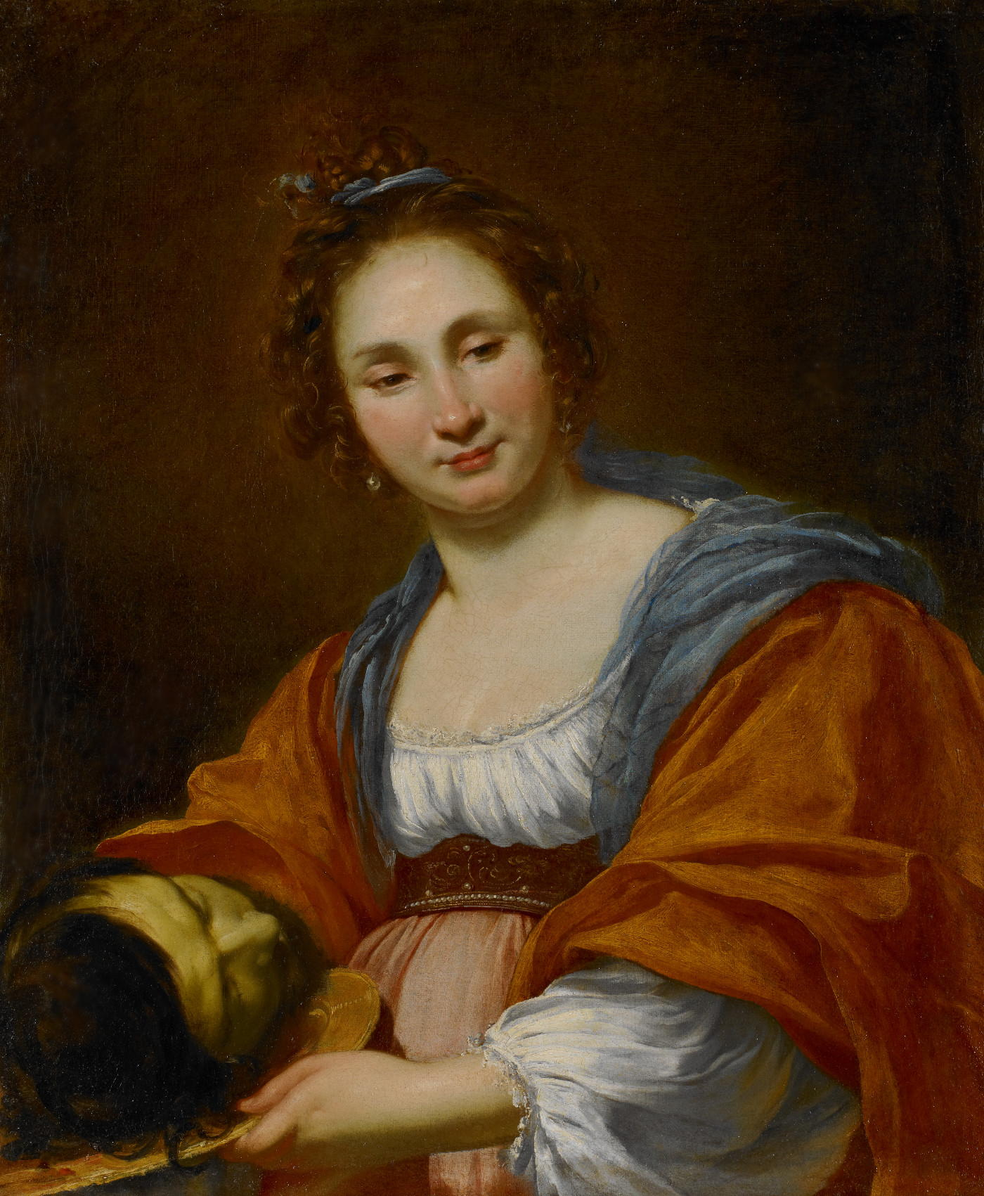 "Salome" (1626-1627) by Simon Vouet at the Crocker Art Museum in Sacramento, California